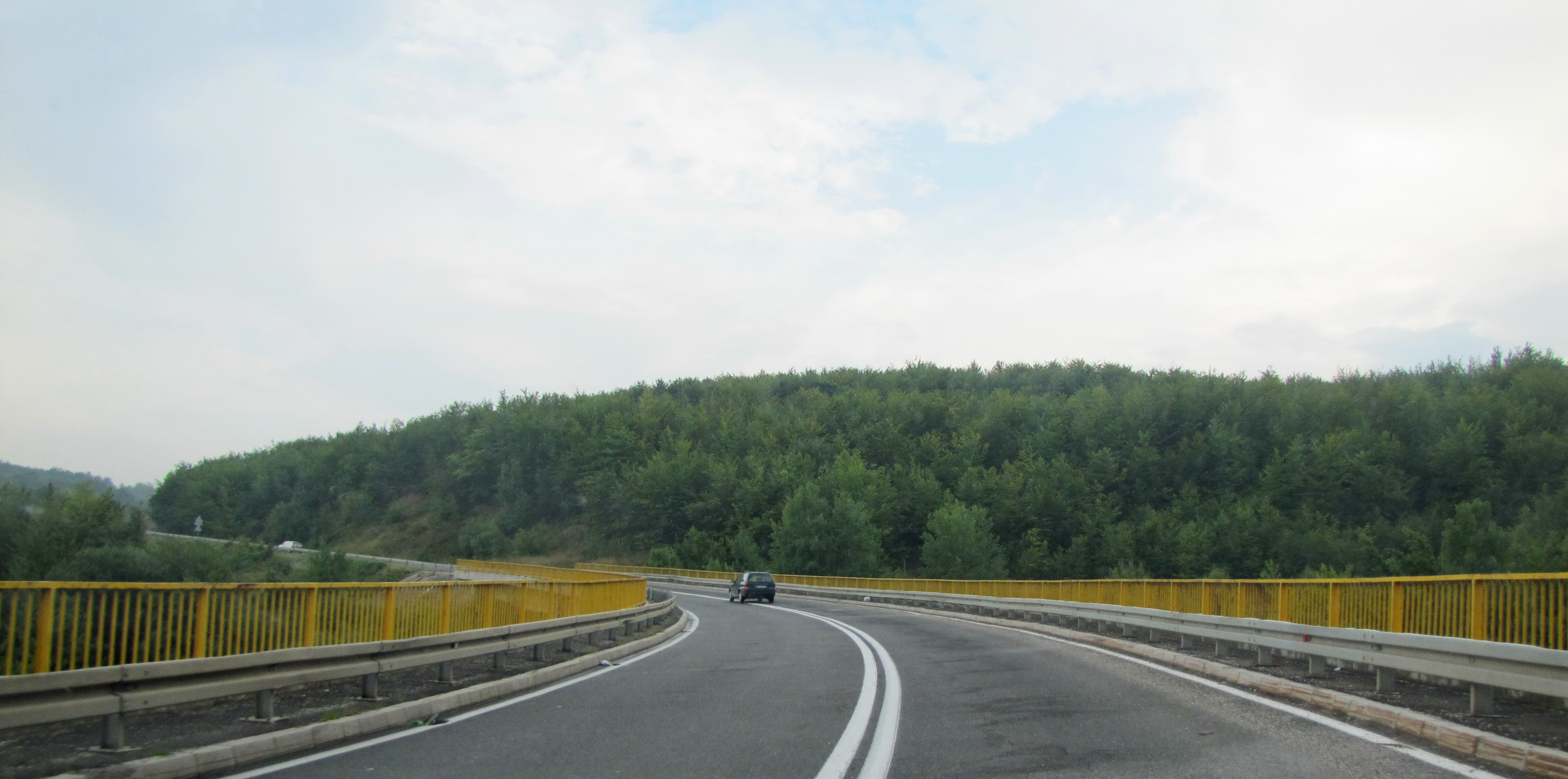 Bridge at Kominjske bare, village Kožlje (Novi Pazar, SW Serbia).